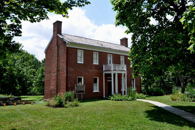 Shawnee Indian Mission School at Fairway, Kansas